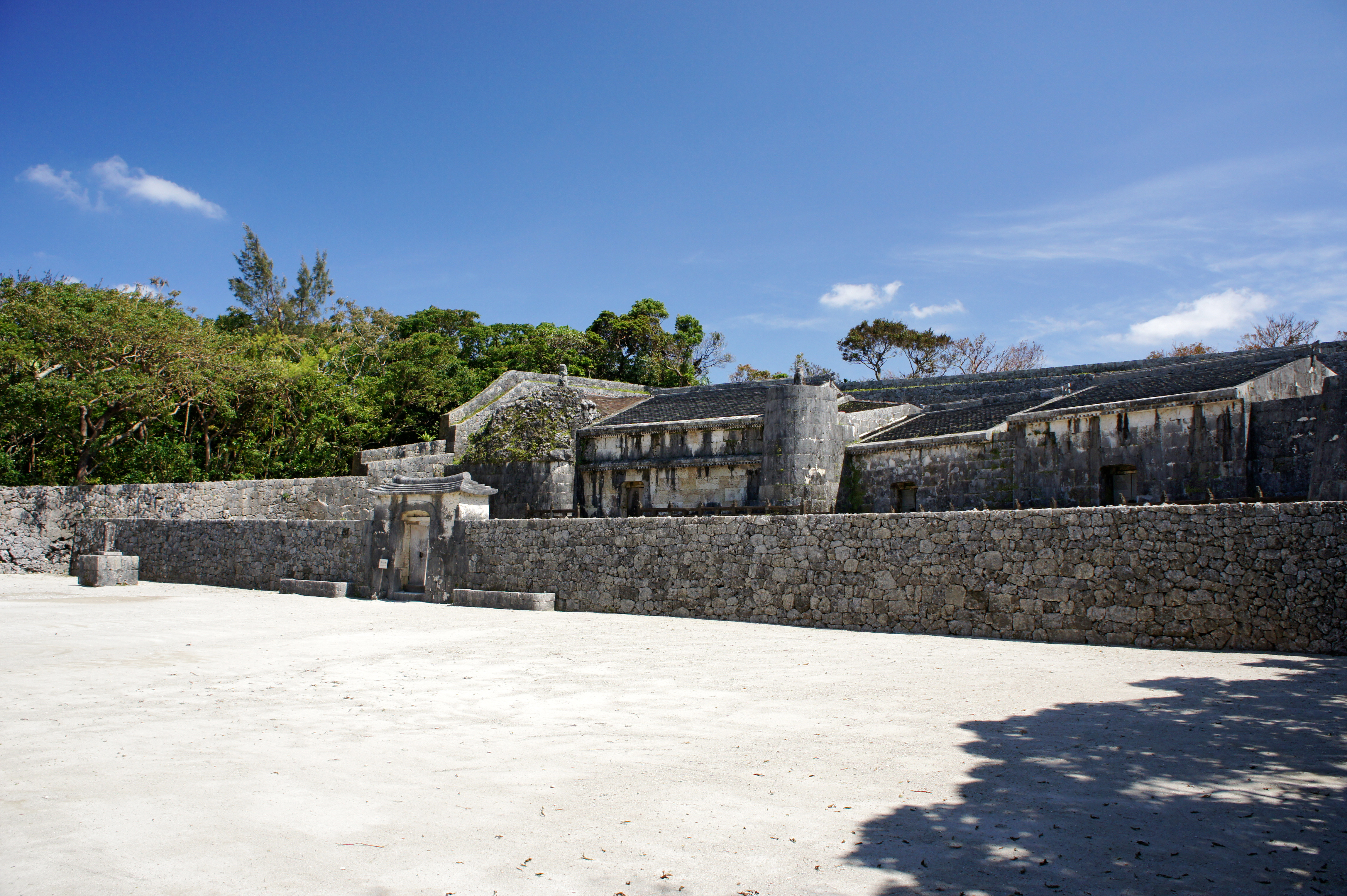 Tamaudun in Naha, Okinawa prefecture, Japan Tamaudun was registered as part of the UNESCO World Heritage Site "Gusuku Sites and Related Properties of the Kingdom of Ryukyu".